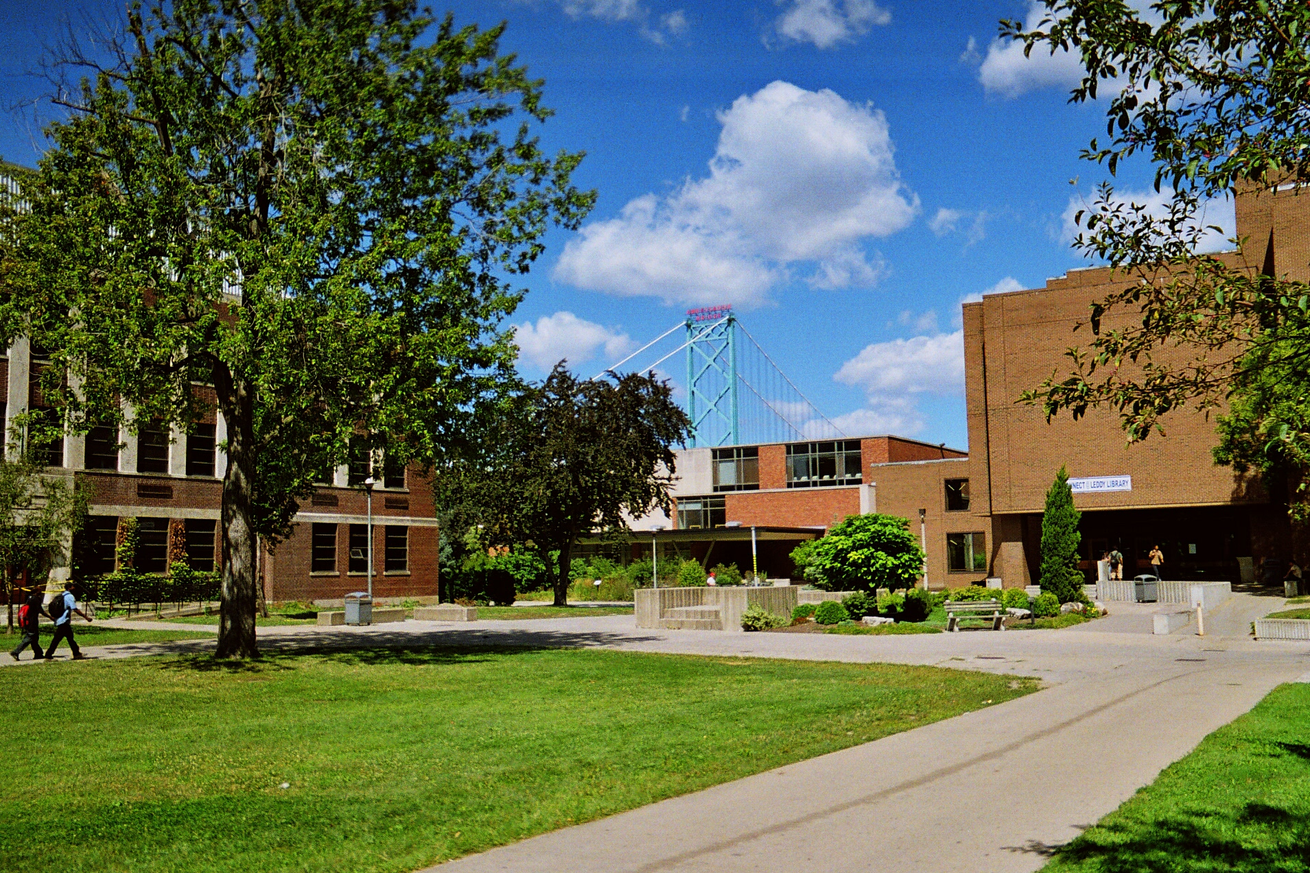 Mu photo of university of Windsor campus